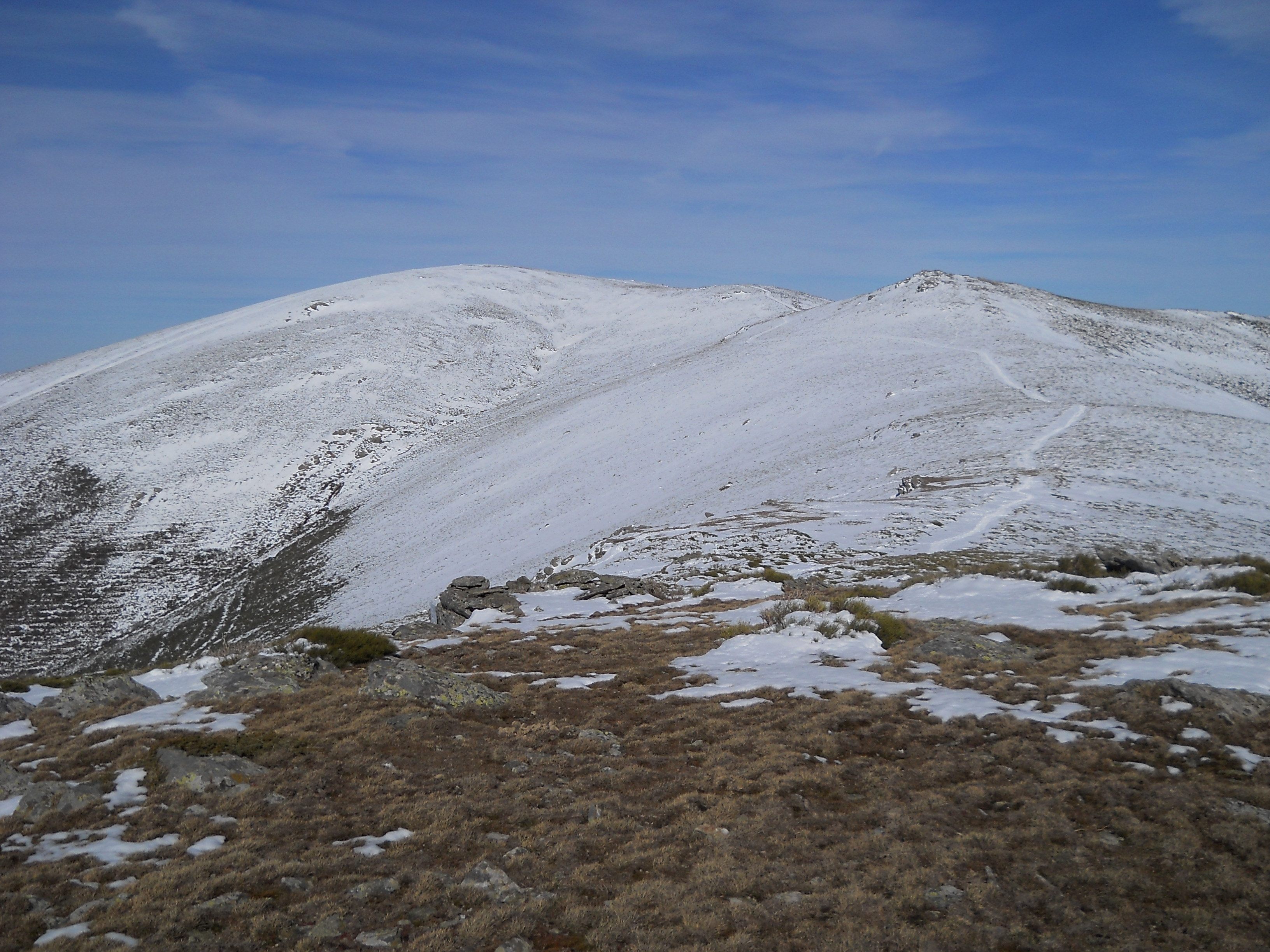 Peña Cebollera, or Cebollera Vieja or pico de las Tres Provincias, Sierra de Ayllón, Spain seen from the south